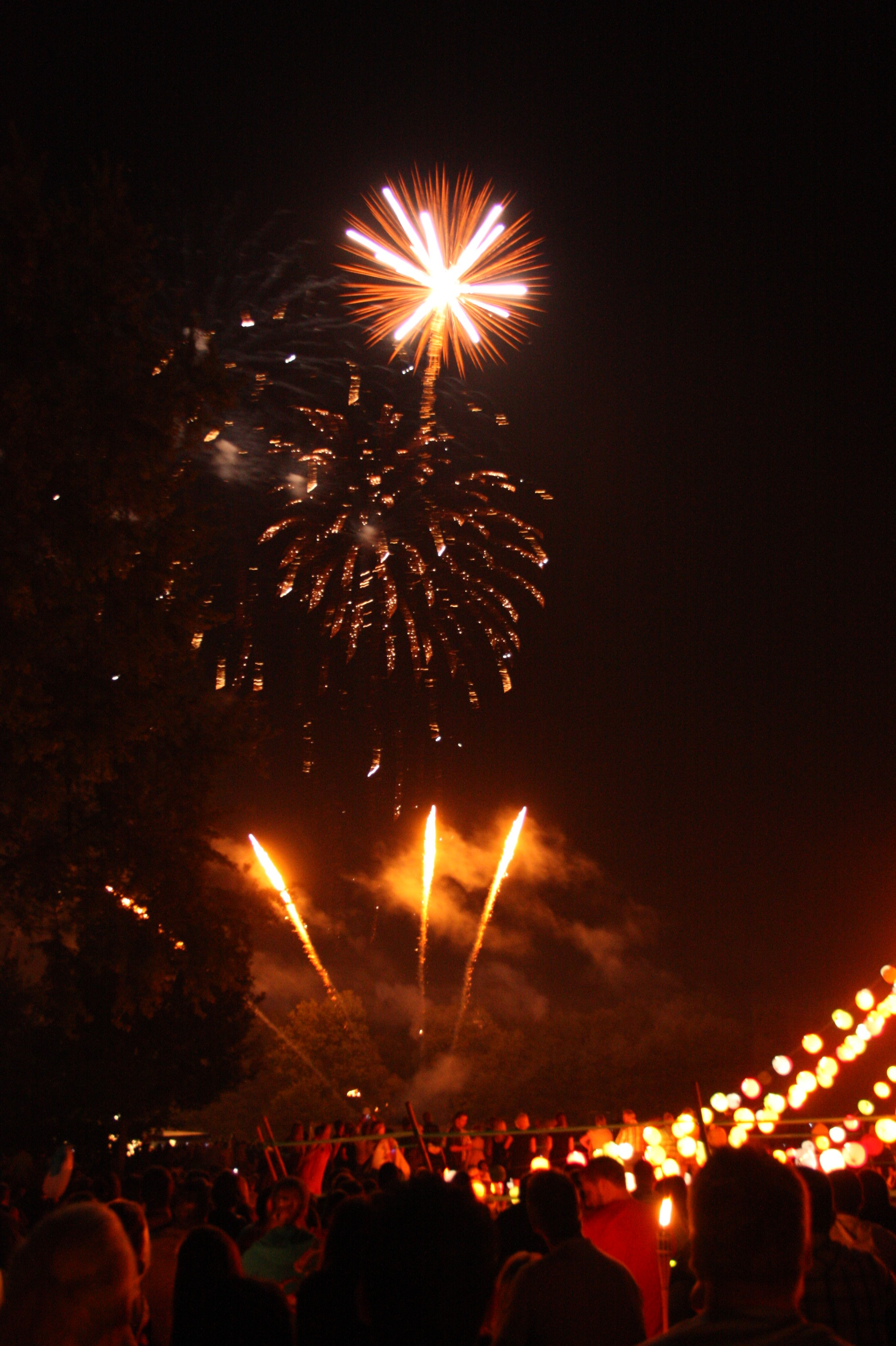 Fireworks in Dortmund, Germany.